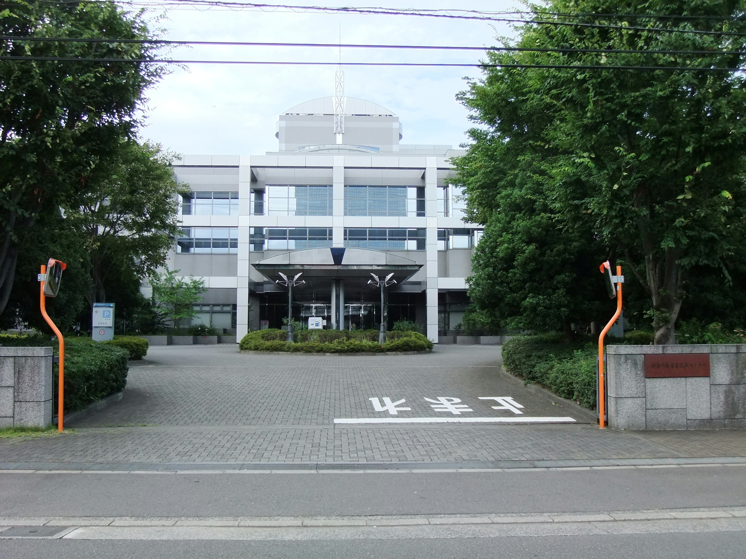 Kanagawa Industrial Technology Center, Main Entrance